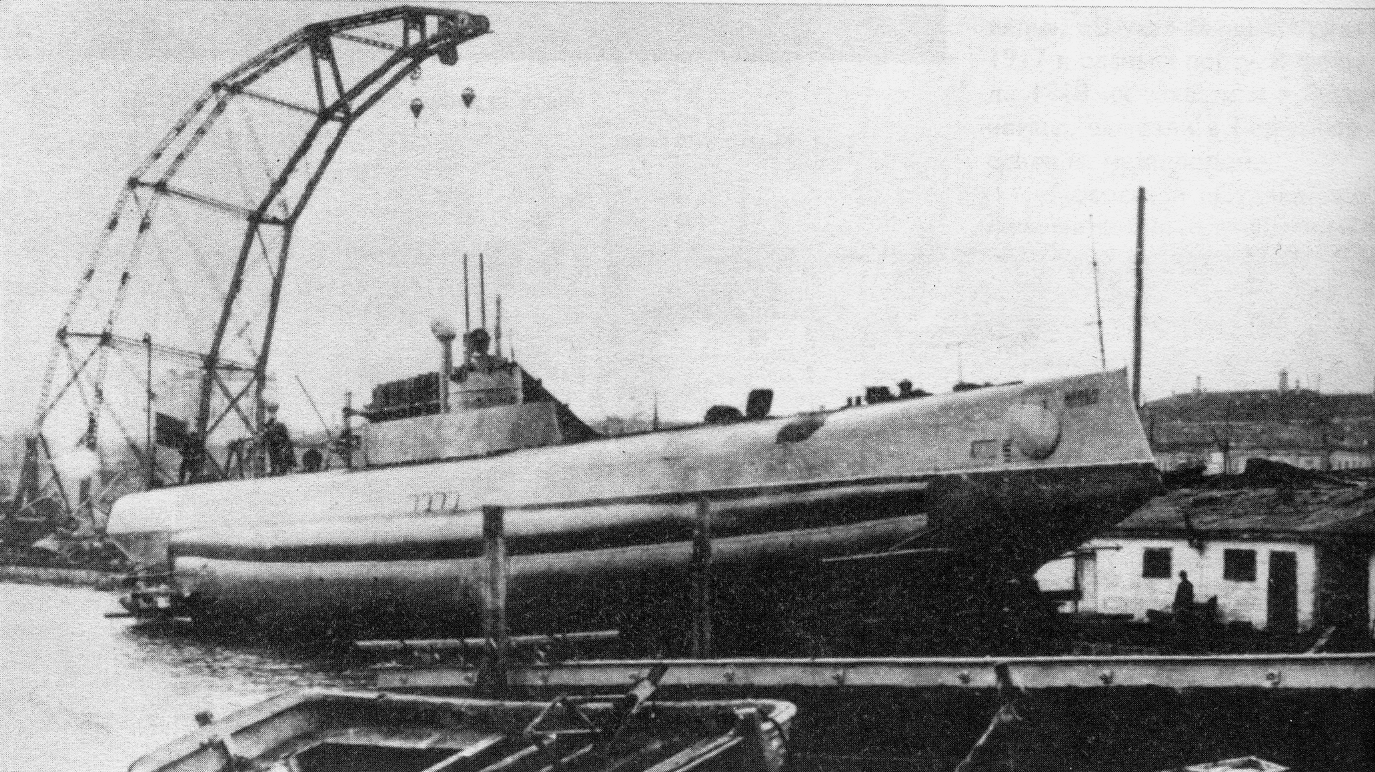 Russian submarine "Krab". First submarine-minelayer in the world.